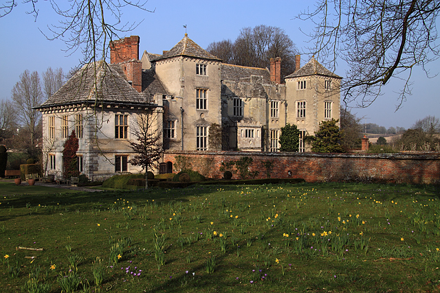 Cranborne Manor, near to Cranborne, Dorset, Great Britain. One of the oldest inhabited houses in England, Cranborne has its origins in the C13, when it was a hunting lodge, frequented on many occasions by King John, a keen huntsman. By the late C16 when Cranborne Manor had become partly ruinous, it was purchased by Robert Cecil the great Tudor statesman and 1st Earl of Salisbury, who became Secretary of State to Queen Elizabeth I in 1596. He built two Jacobean houses, one at Hatfield, in Hertfordshire, the other at Cranborne, where many of the features of the old lodge were incorporated into the new building. During its construction King James I made his first visit to Cranborne in 1607, the house at that time being barely habitable. The present occupants are the Marquess and Marchioness of Salisbury, the Marquess being Viscount Cranborne, M.P. for South Dorset.